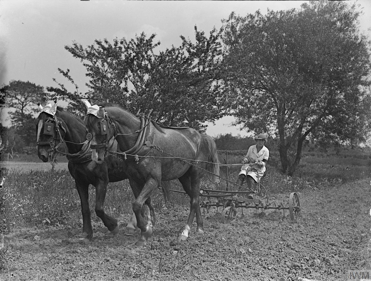 Agriculture in Britain during the First World War A member of the Women's Land Army farming potatoes using horse-drawn machinery during the First World War.